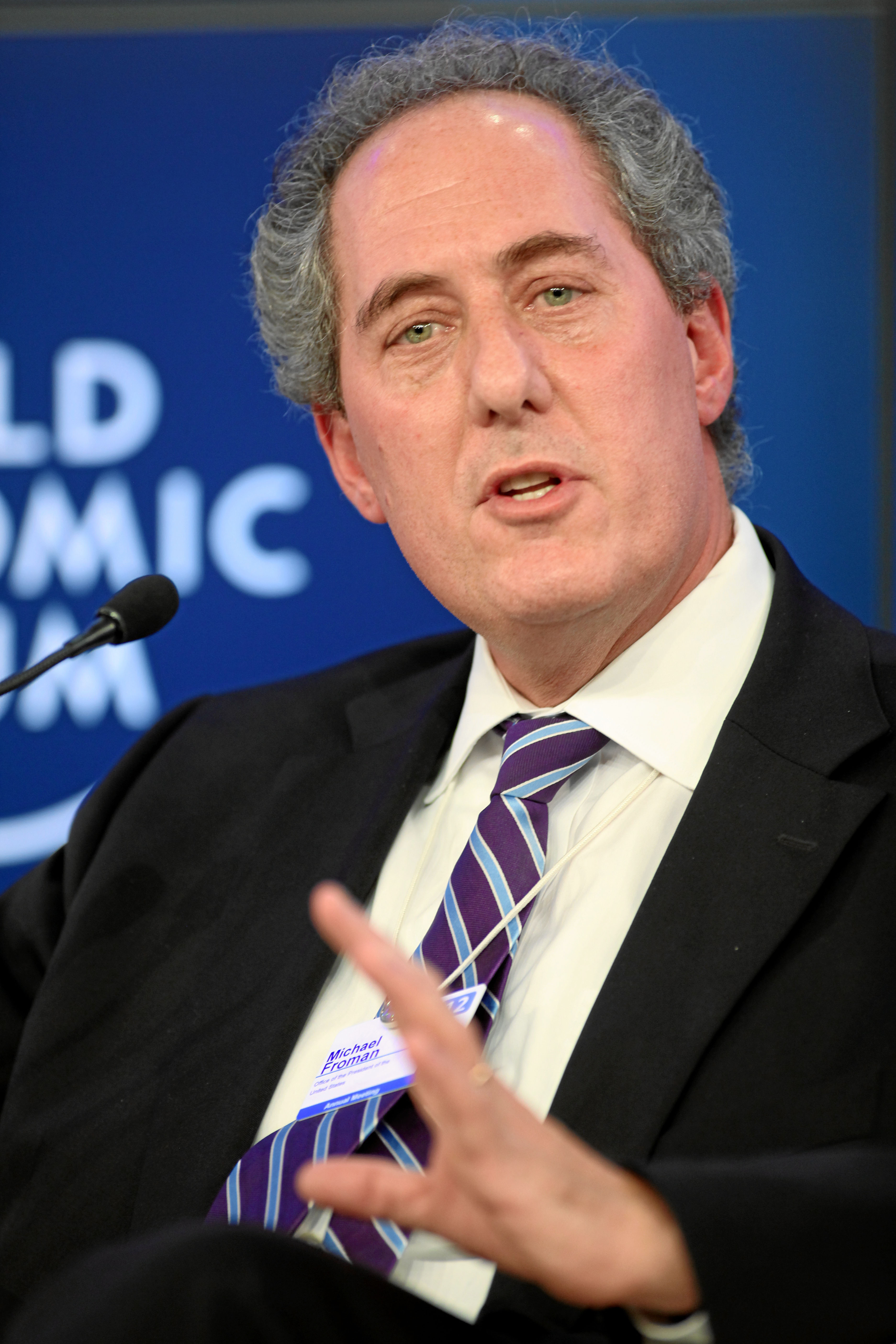 DAVOS/SWITZERLAND, 27JAN12 - Michael Froman, Deputy Assistant to the US President; Deputy National Security Adviser for International Economic Affairs, USA is captured during the session 'The Future of American Power in the 21st Century' at the Annual Meeting 2012 of the World Economic Forum at the congress centre in Davos, Switzerland, January 27, 2012.. . Copyright by World Economic Forum. by Monika Flueckiger